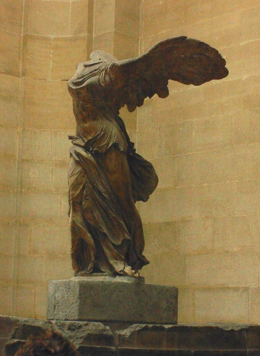 Photo by User:Adam Carr, Paris May 2002